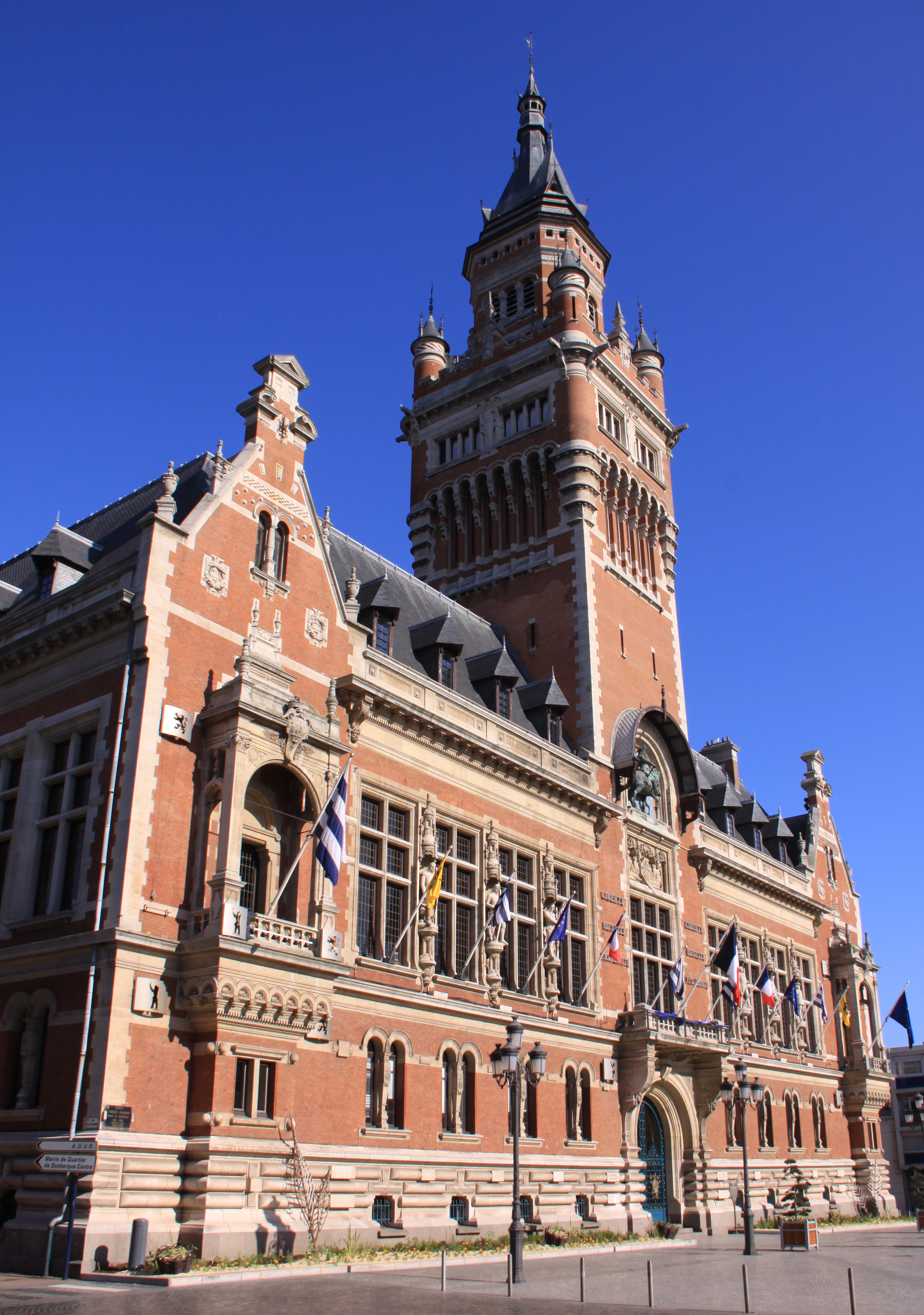 Dunkerque Town Hall Rathaus